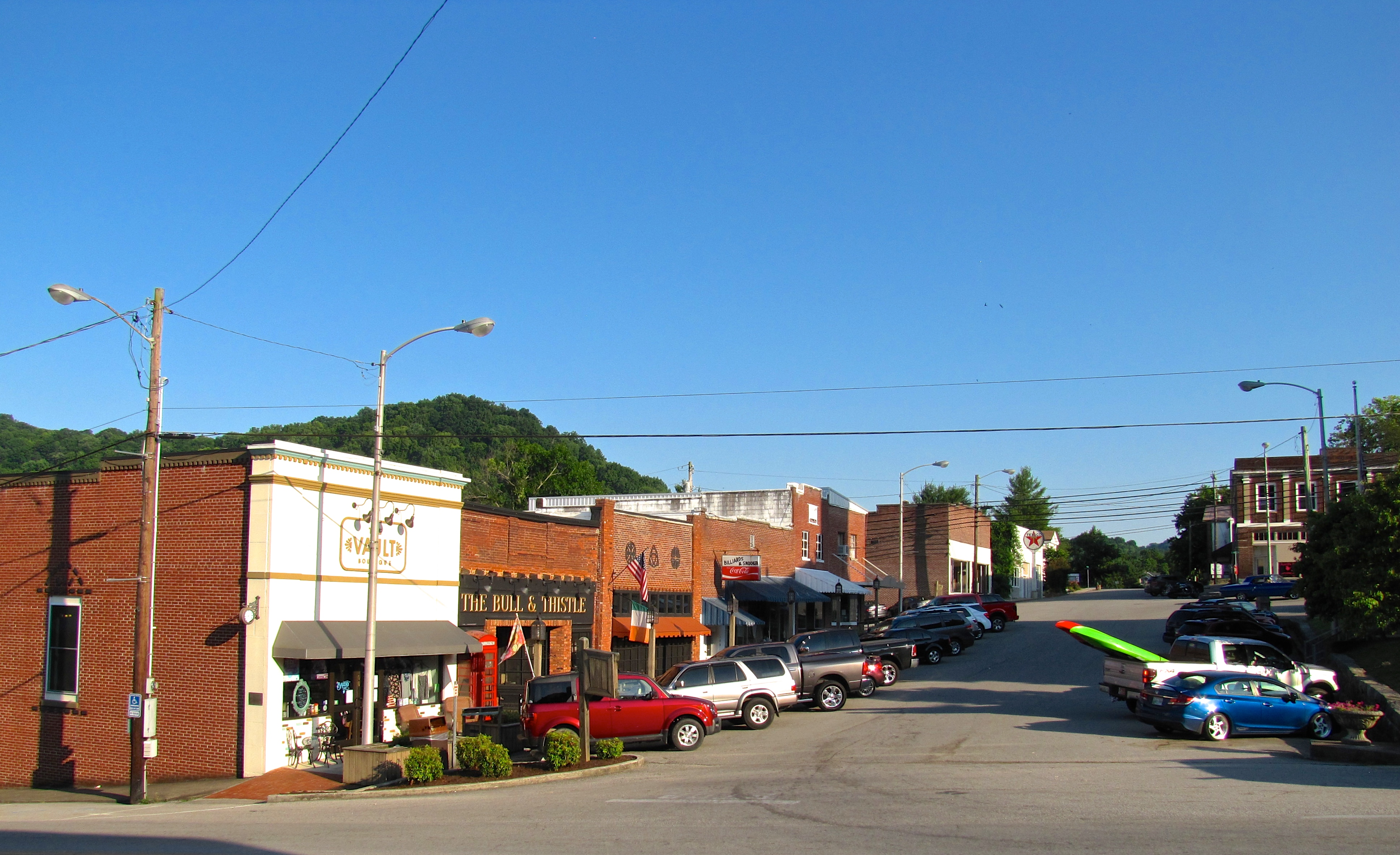 Buildings along Main Street on the Town Square in Gainesboro, Tennessee, United States.